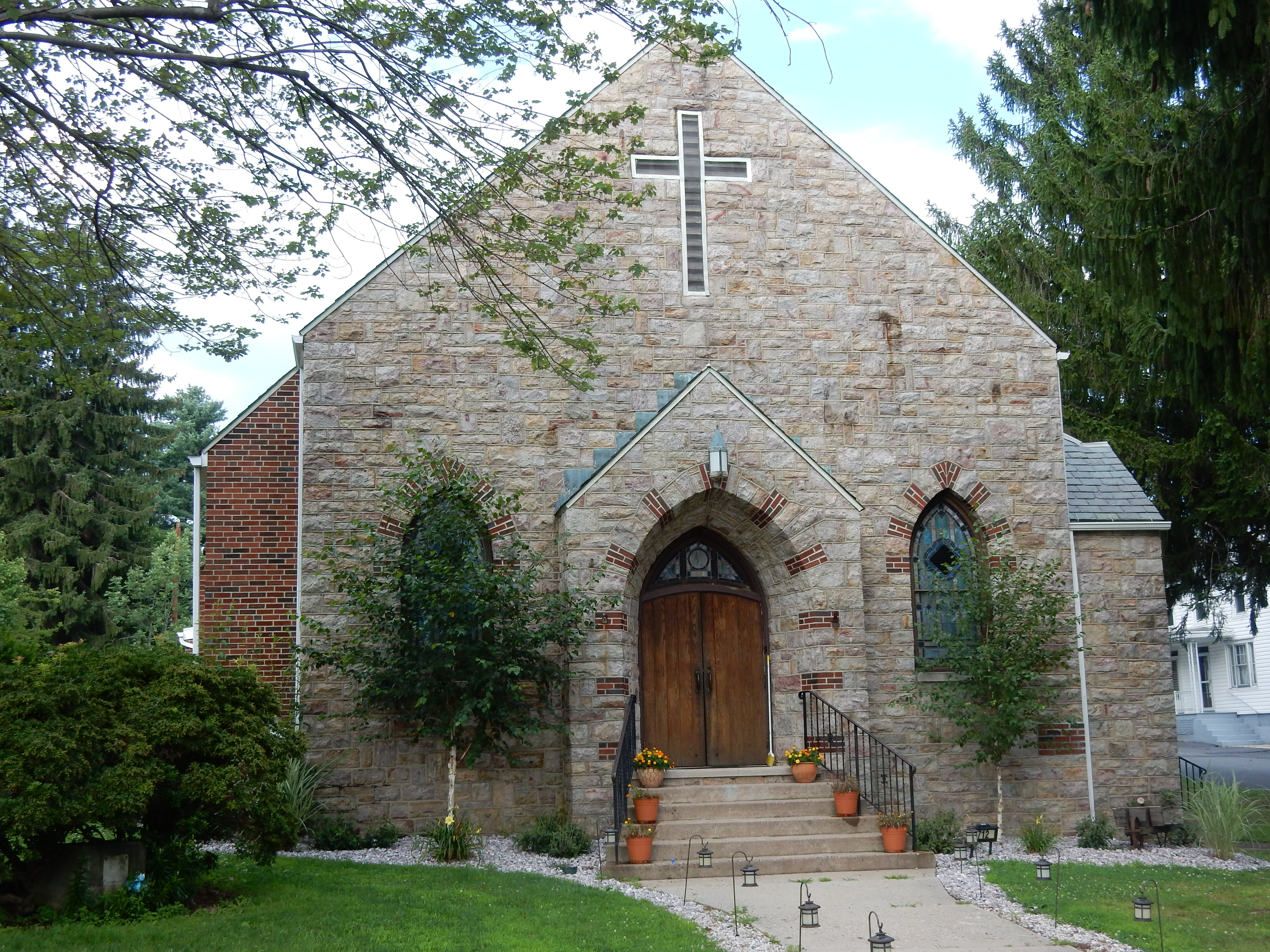 St. Bertha Catholic Church, 712 Broad St., Tuscarora, Schuylkill Township, Schuylkill County, Pennsylvania. A Closed Parish of The Roman Catholic Diocese of Allentown, Pennsylvania.